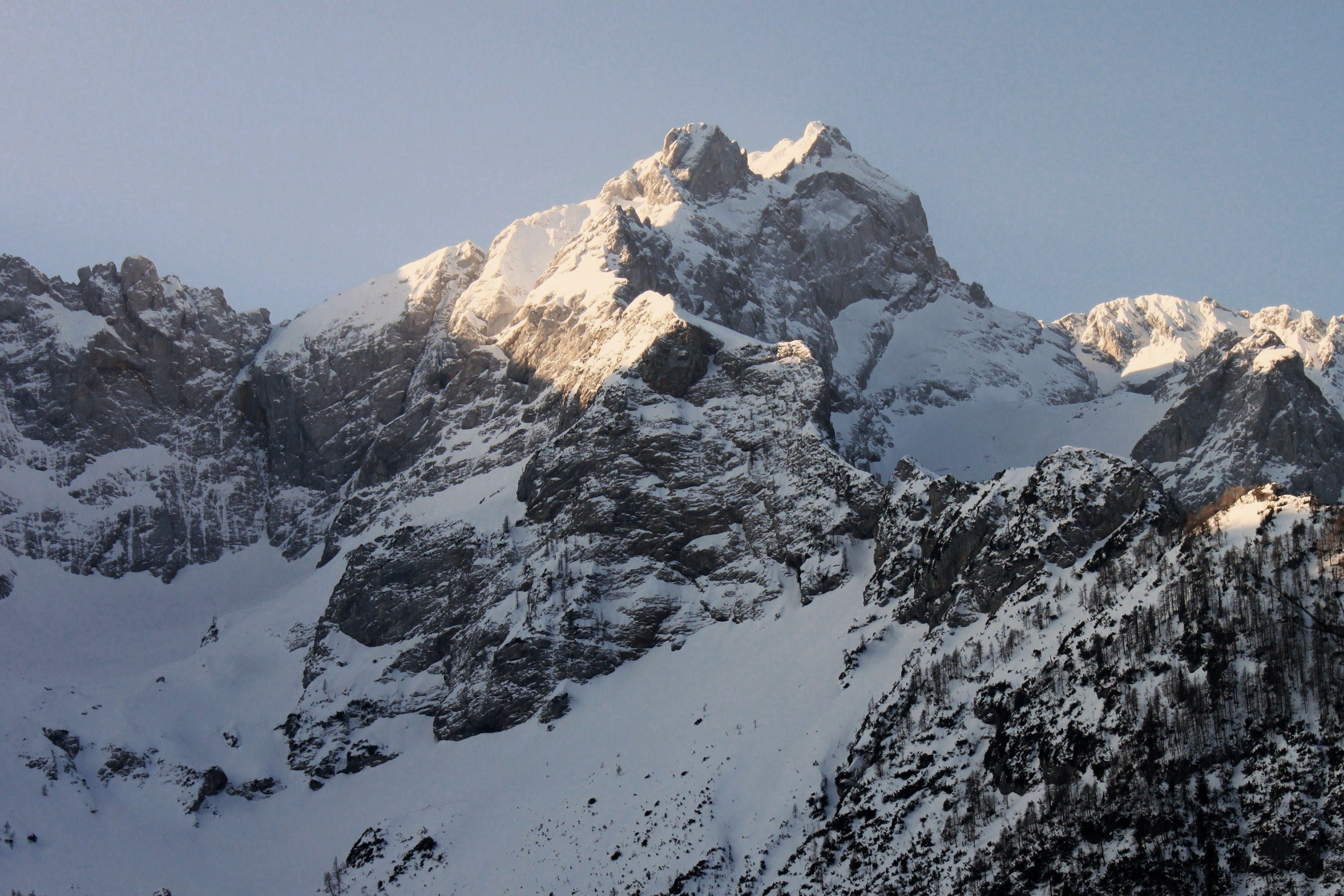 View of Jezerska Kočna from the Jenko pasture.Unknown